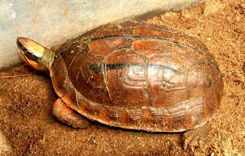 Central Vietnamese three-striped box turtle Cuora cyclornata cyclornata female, by Torsten Blanck